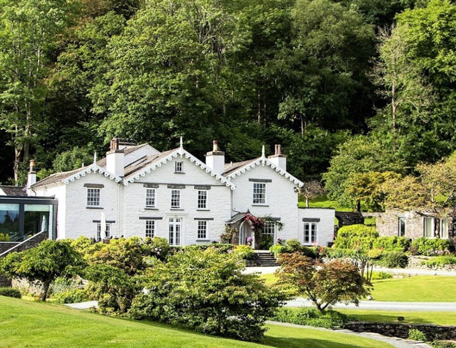 The Samling Hotel, Windermere